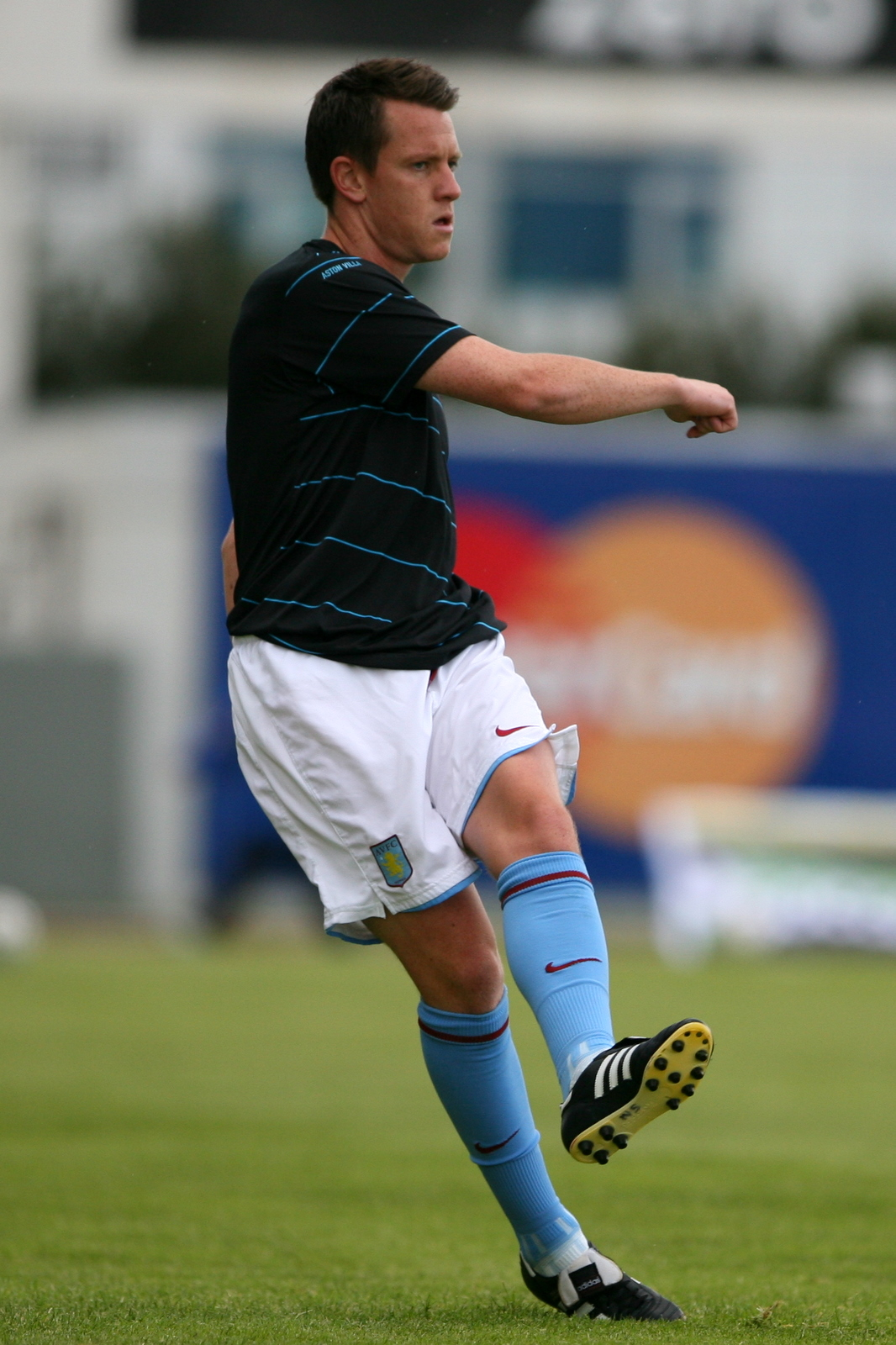 Nicky Shorey of Aston Villa